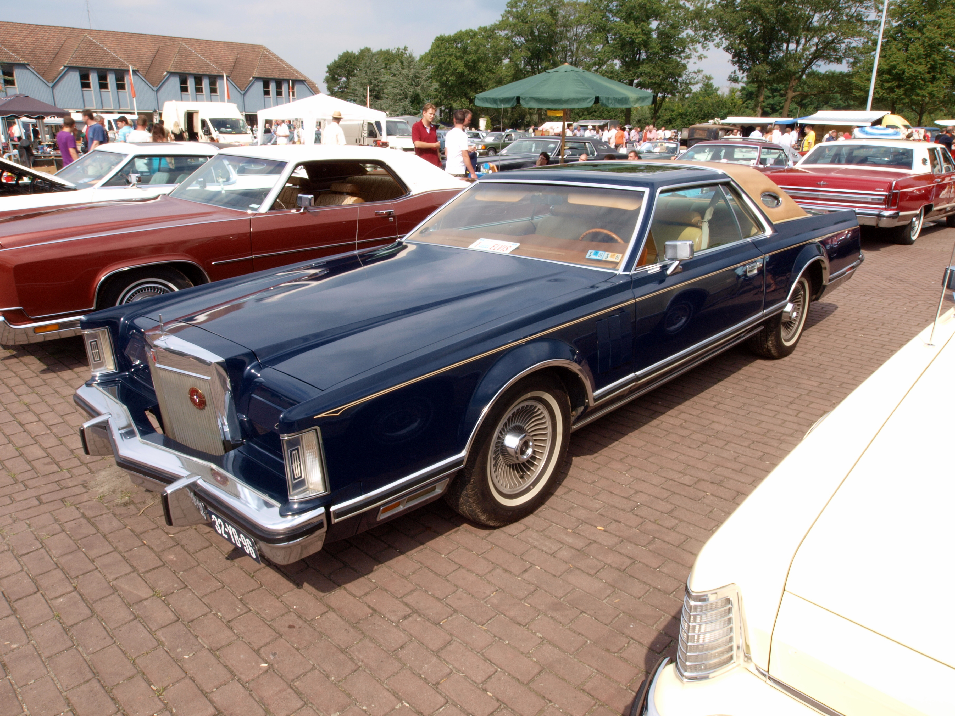 Photographed at the 2010 Autotron Classic car meeting, Rosmalen, The Netherlands. OLYMPUS DIGITAL CAMERA